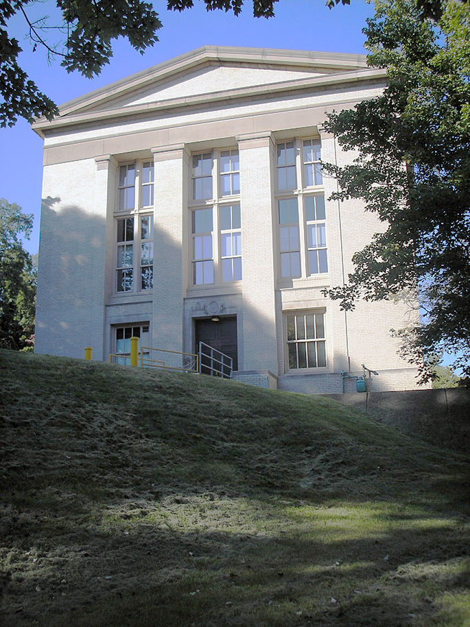 Eberly Hall at the University of Pittsburgh. photo by Michael G White